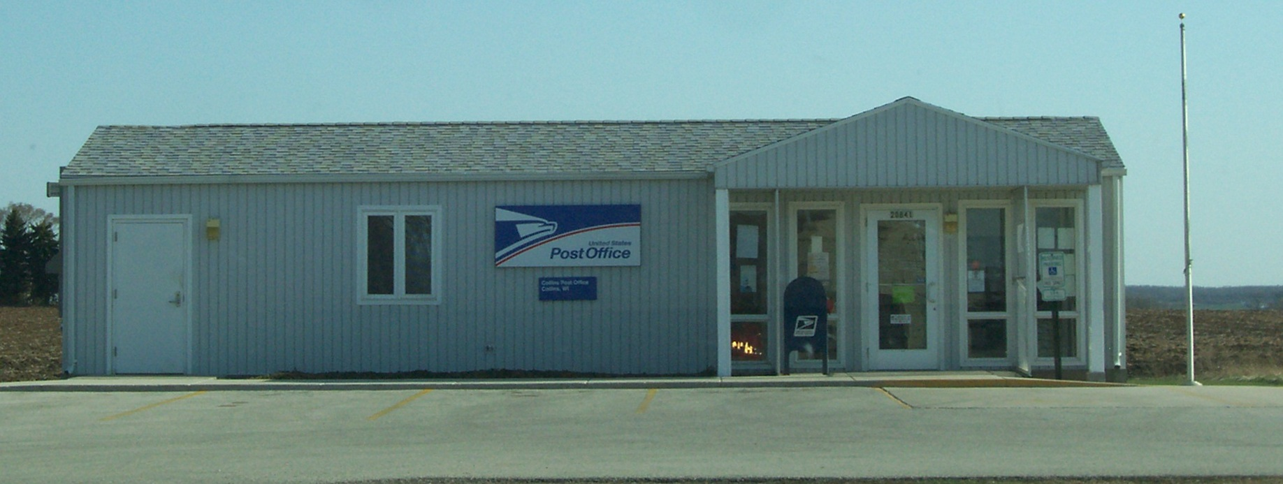 Looking south at the post office for Collins, Wisconsin.